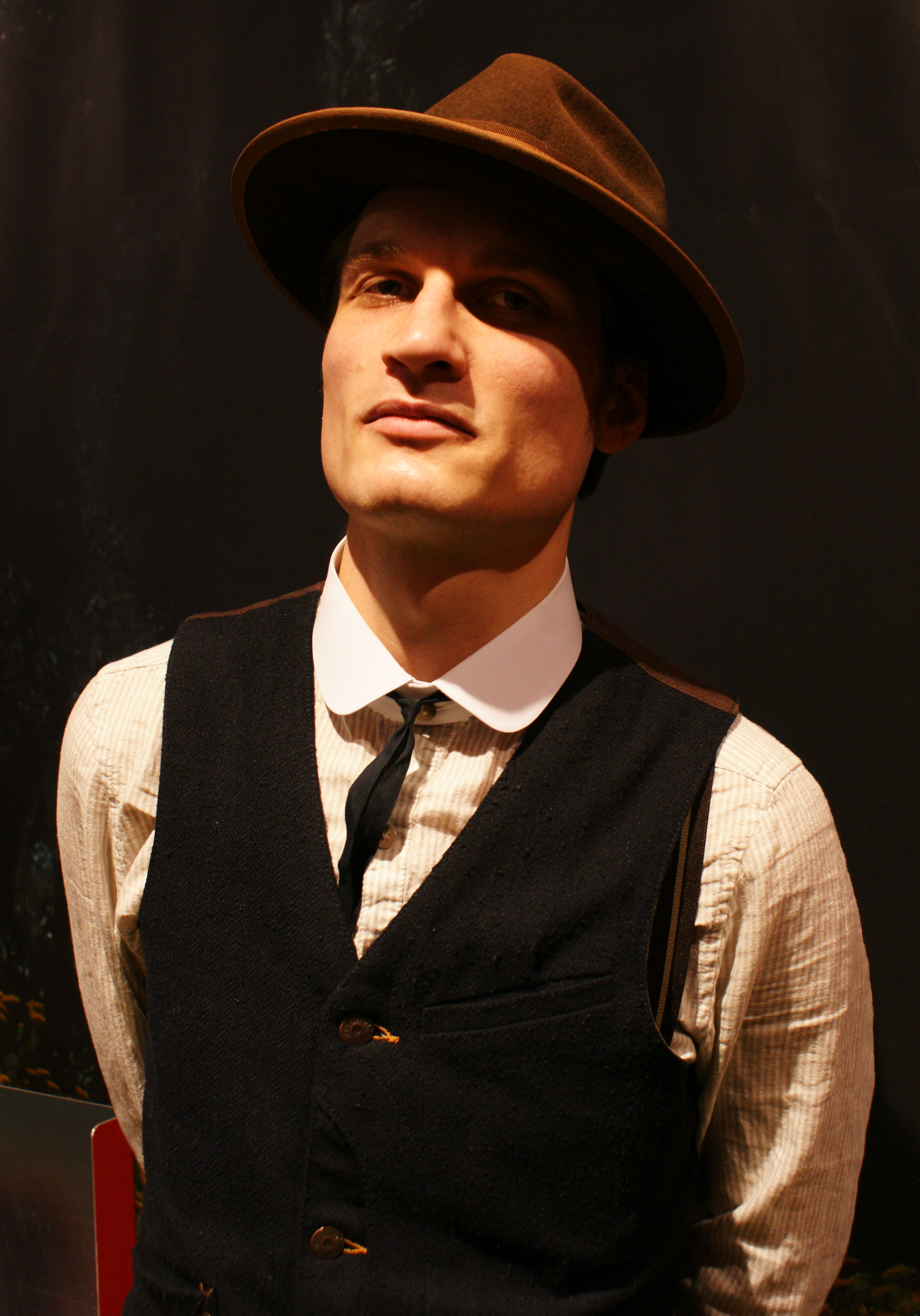 Swedish musician, songwriter and artist Bror Gunnar Jansson.